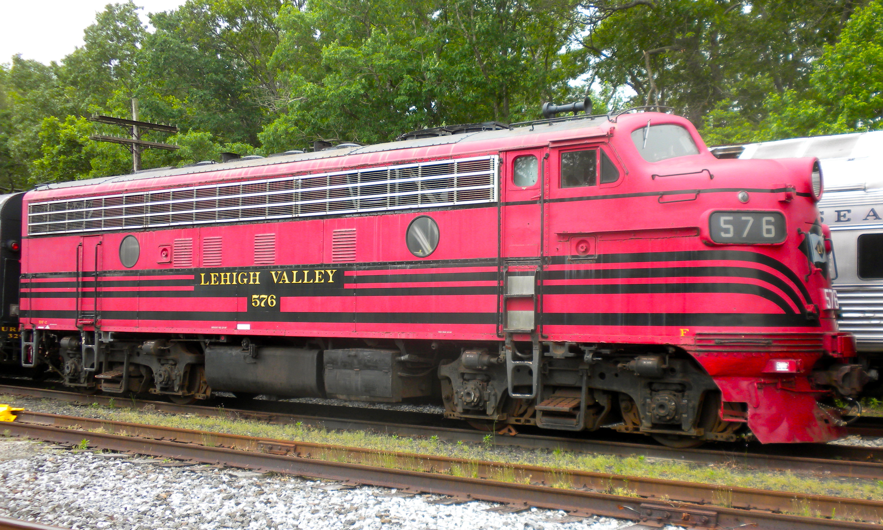 Lehigh Valley Railroad locomotive 576 built in 1949. Used by the Cape May Seashore Lines. Photo taken at Tuckahoe Station, NJ